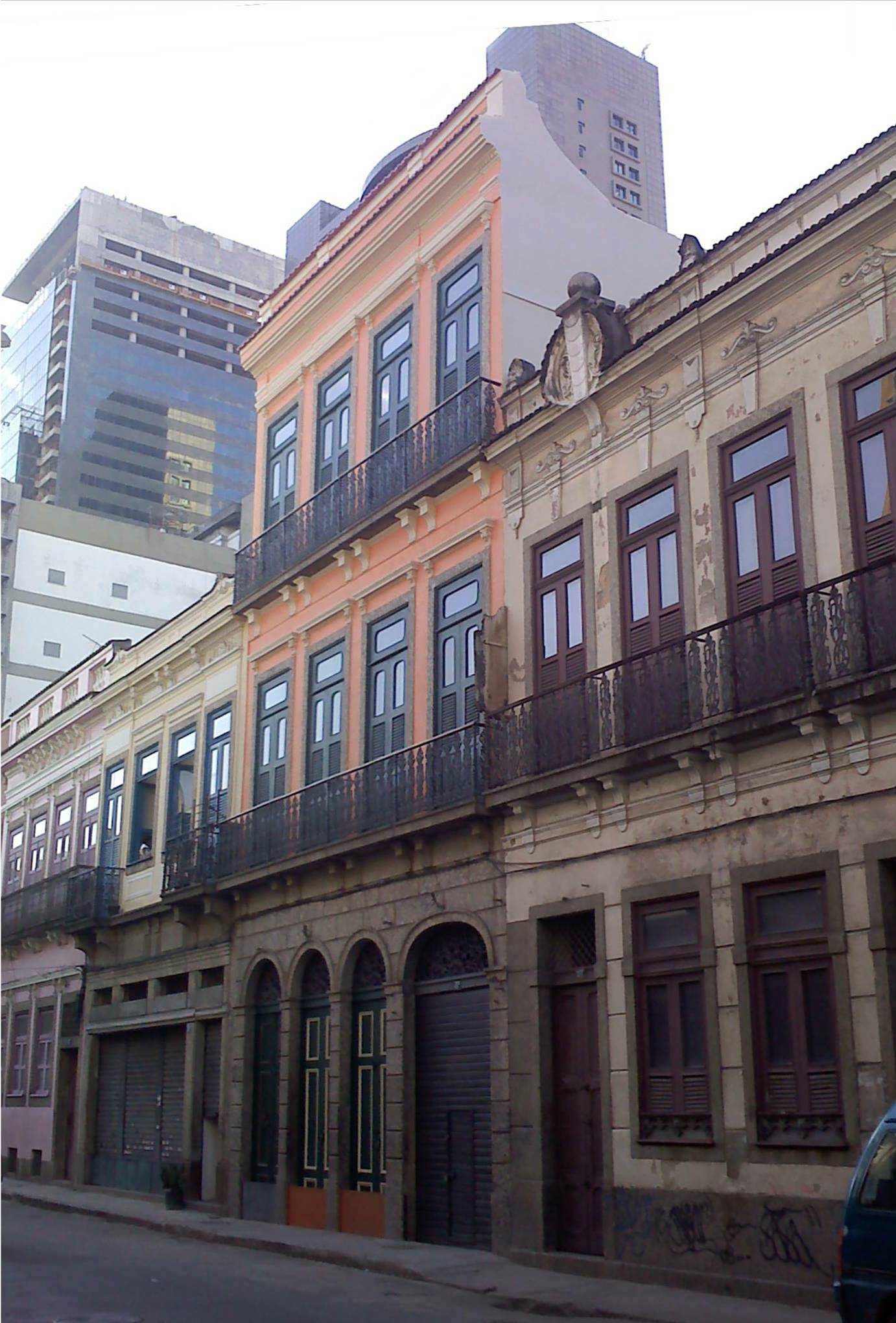 Old houses of the Senado Street, in the Center of Rio de Janeiro - Brazil